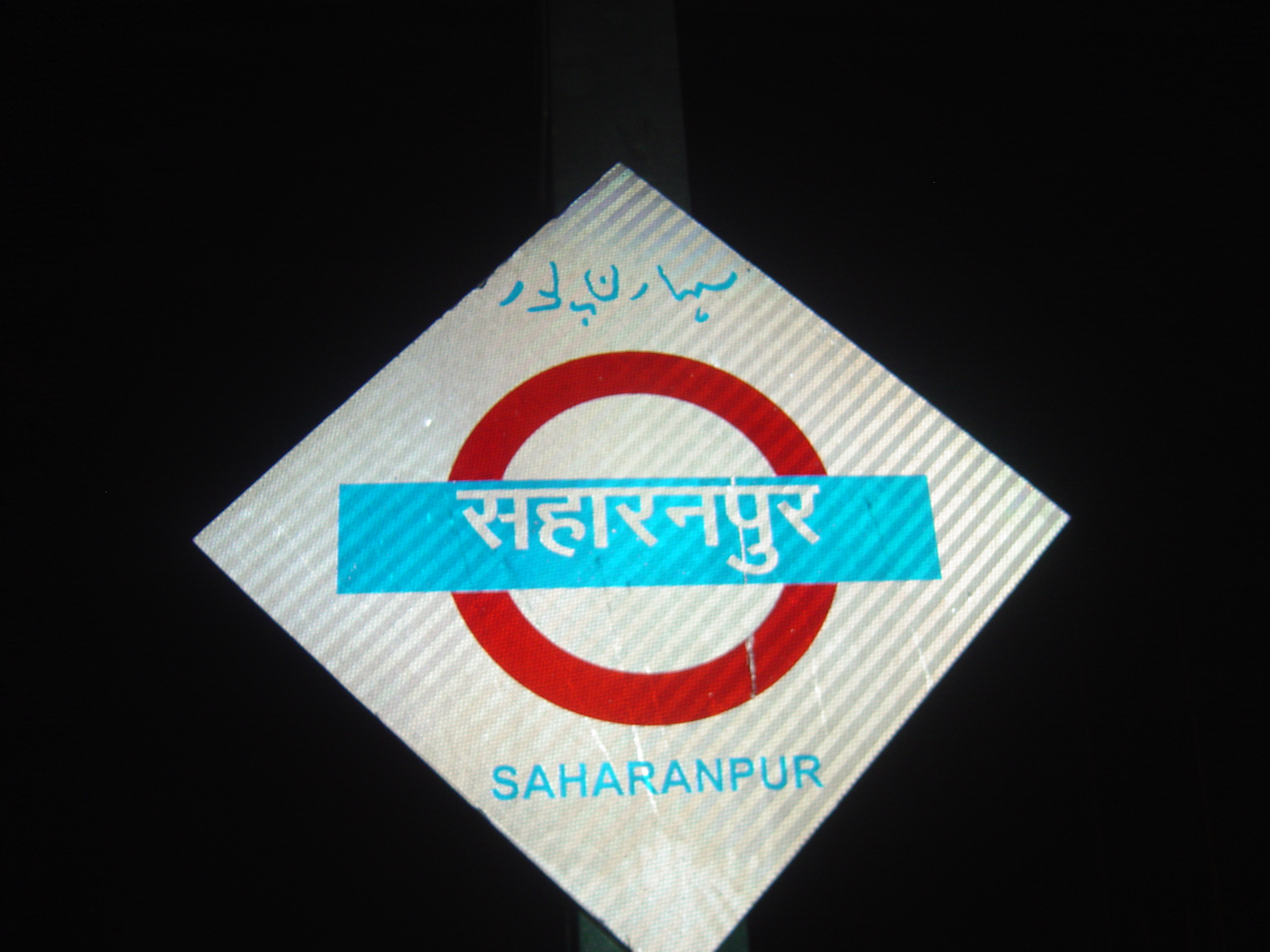 Saharanpur platformboard